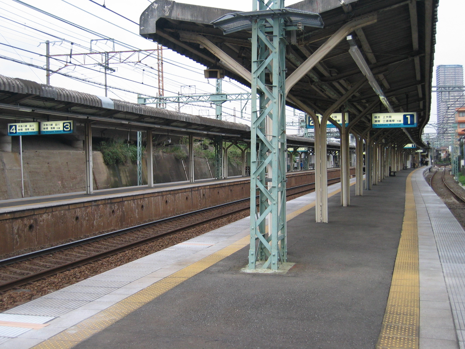 Keikyu Main Line, Koyasu Station Platform(Kanagawa, Japan)